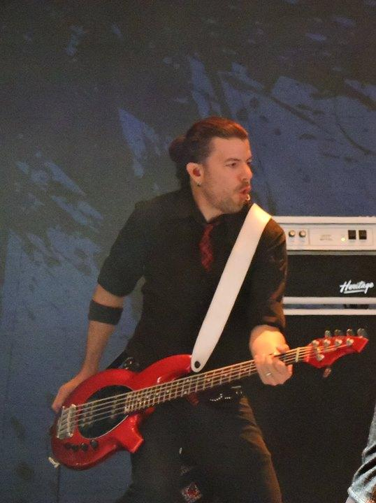 Will Turpin performing with Collective Soul at 2016 MMRBQ, Camden NJ